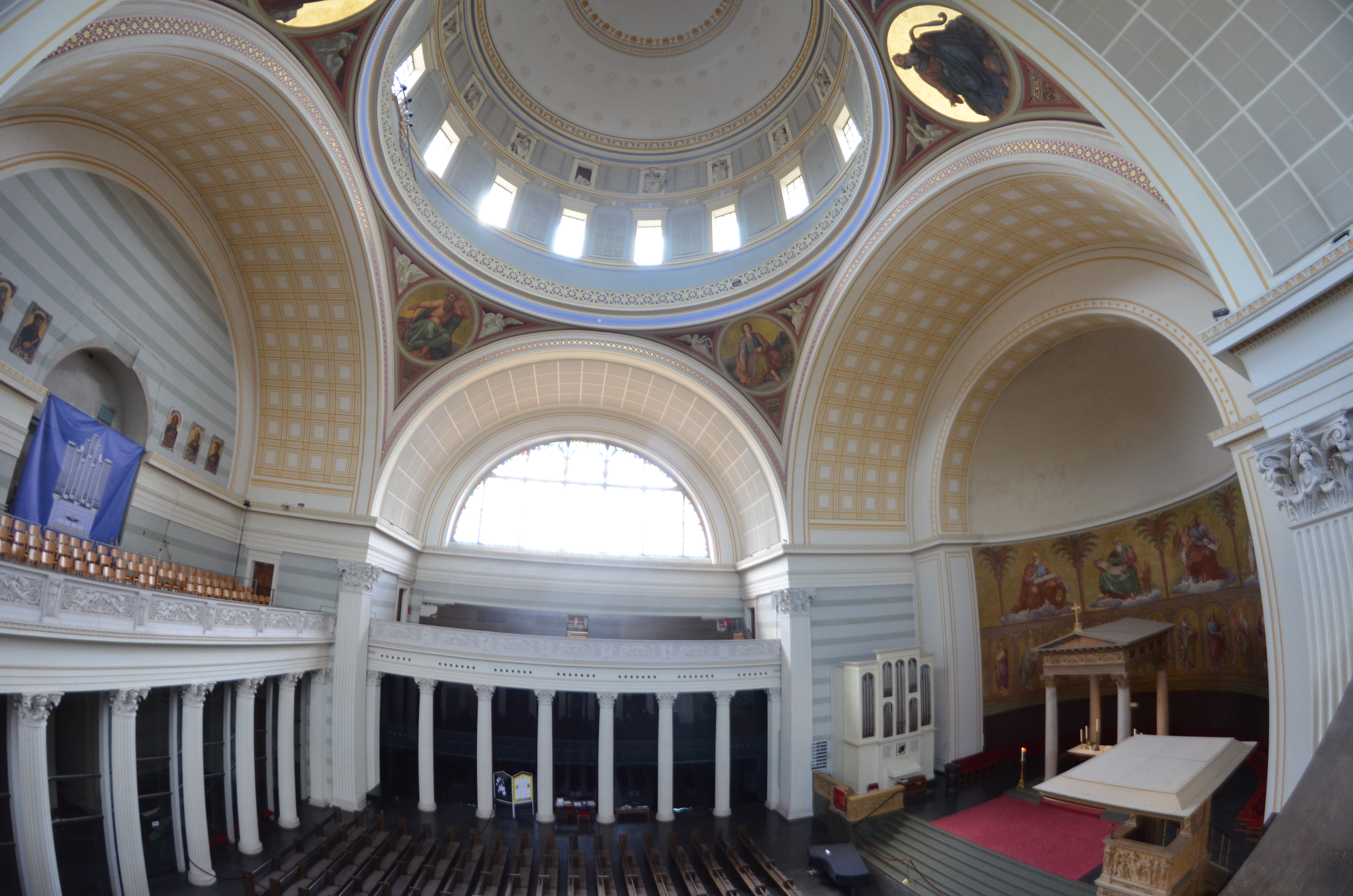 St. Nikolaikirche (Potsdam), interior panorama